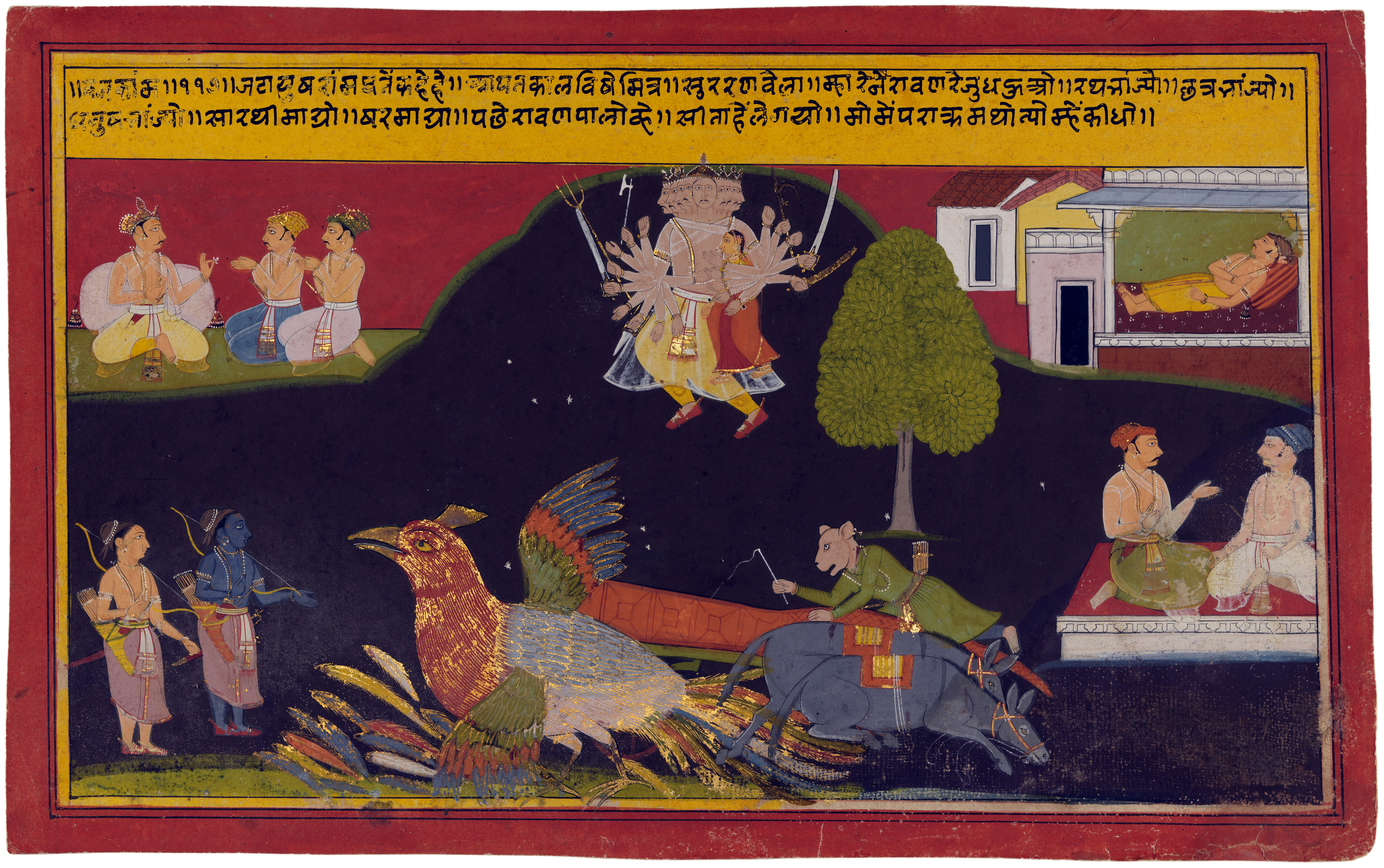 Abduction of Sita India, Rajasthan, Mewar. Folio from a Ramayana (Adventures of Rama)